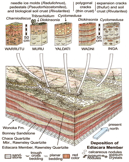 Reconstruction of Ediacaran biota and their soils in the Ediacara Member of the Rawnsley Quartzite in the Flinders Ranges, South Australia